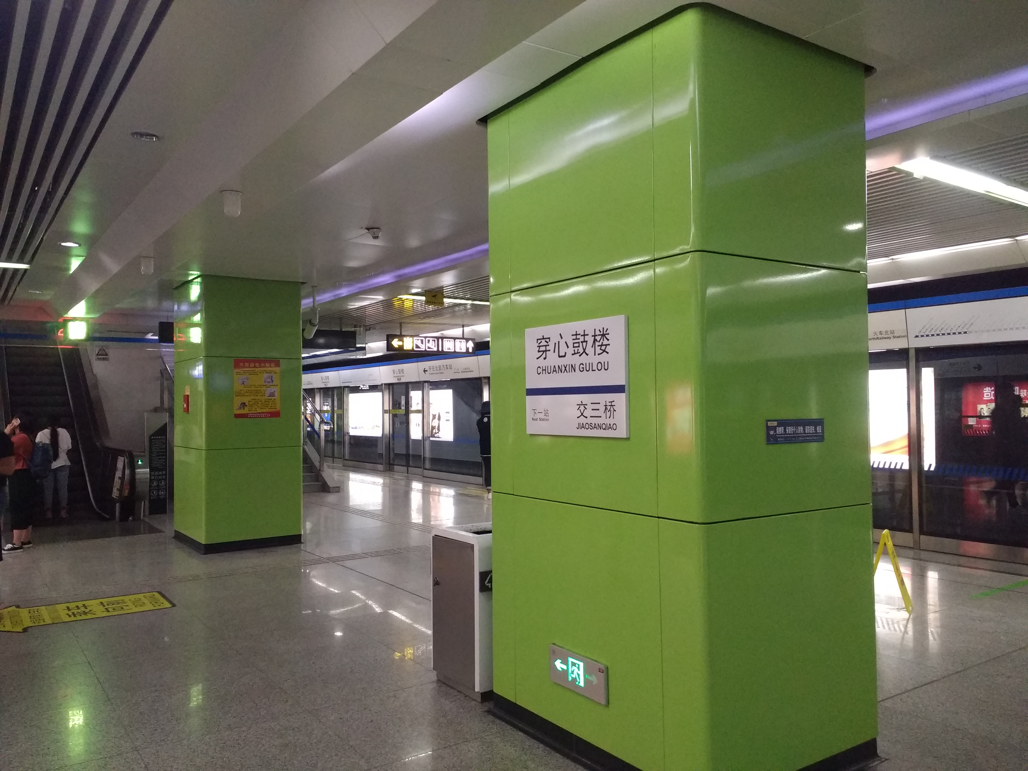 Chuanxin Gulou Station on line 2 of the Kunming Metro.